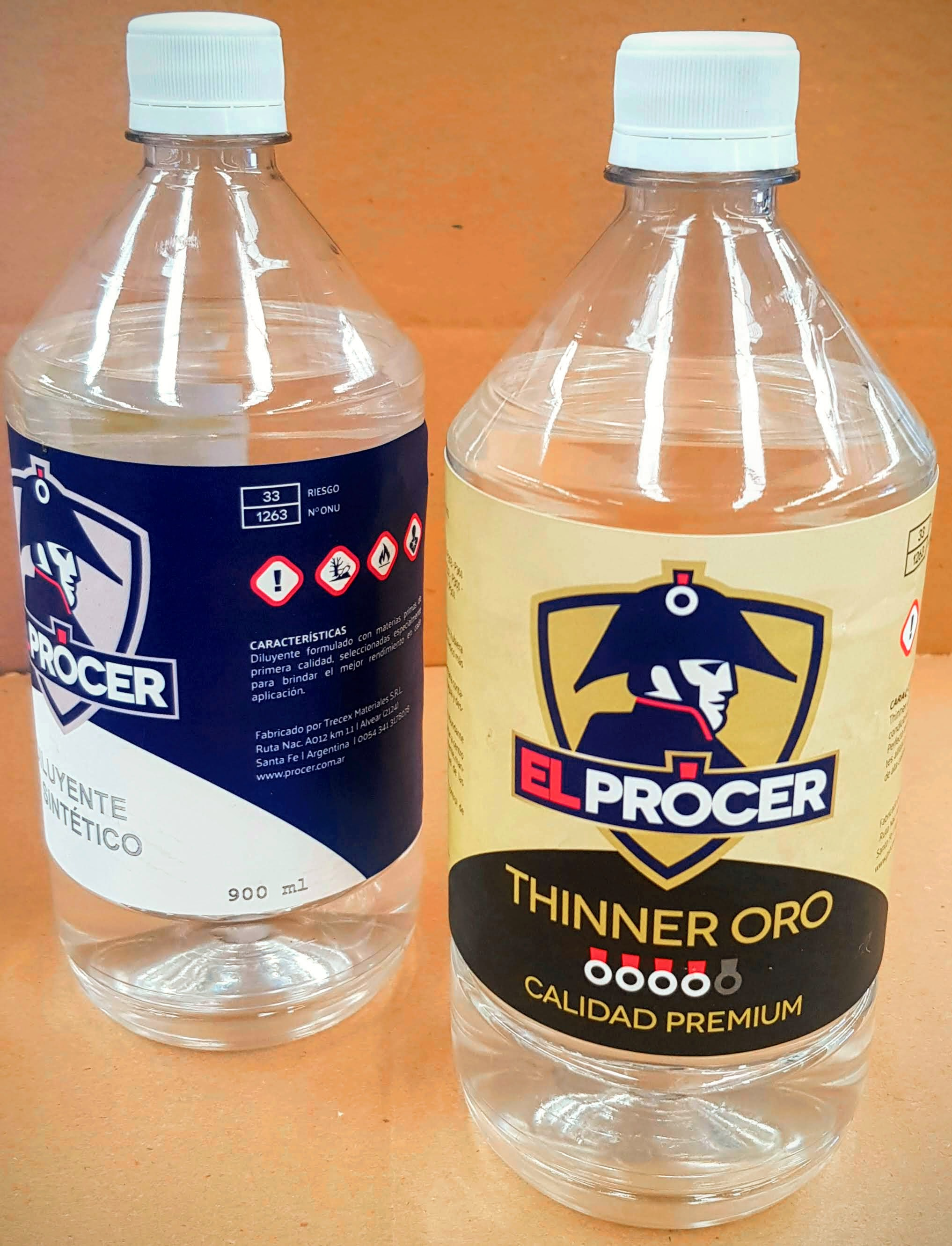 Thinner composed of a mixture of aromatic, aliphatic, and oxygenated hydrocarbons. Totally free of benzene and chlorinated solvents. Acrylic lacquer solvent, specifically developed and with high low evaporation characteristics, also suitable for other types of lacquers